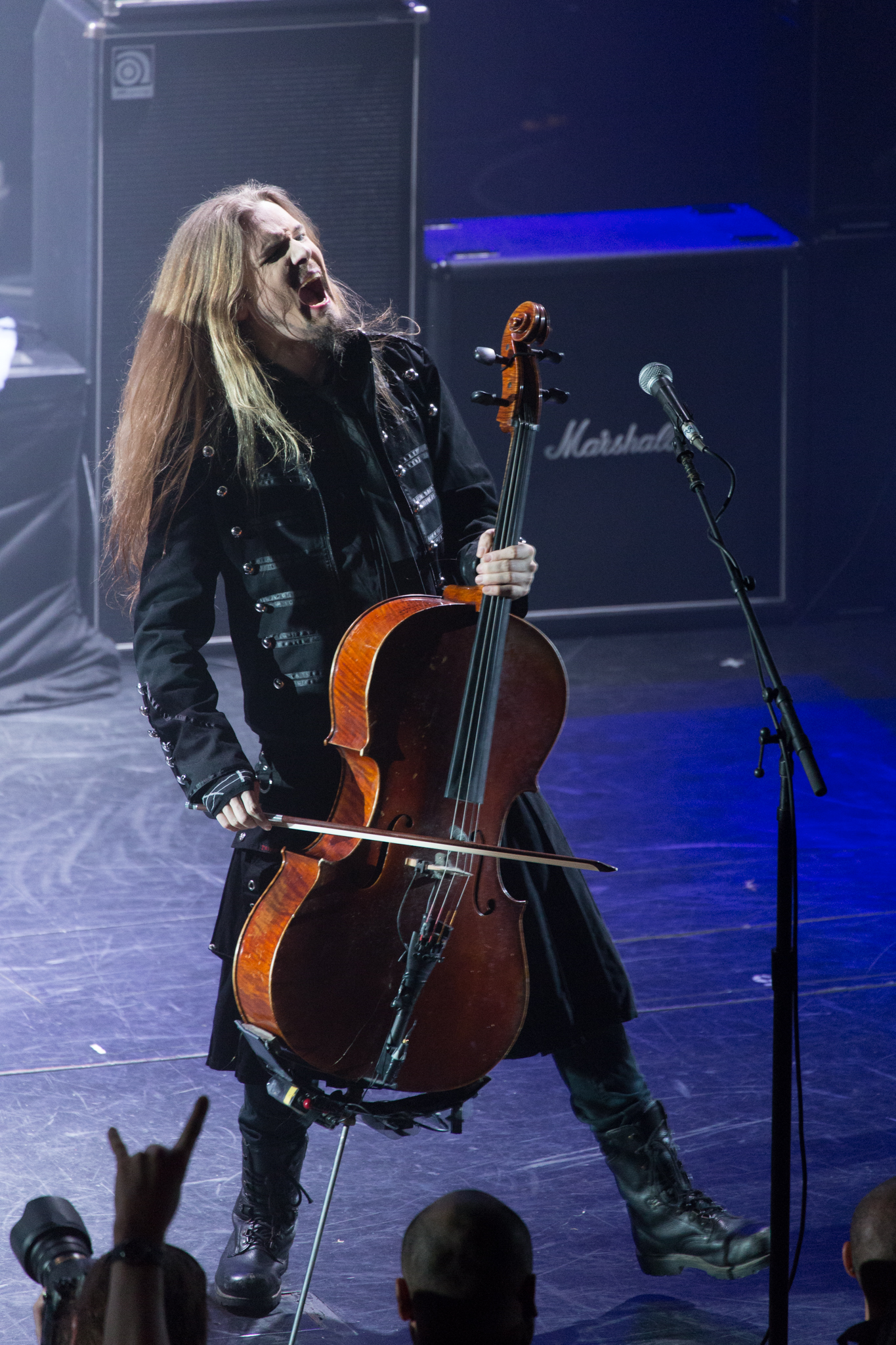 Apocalyptica performing at 70.000 tons of metal, january 2015